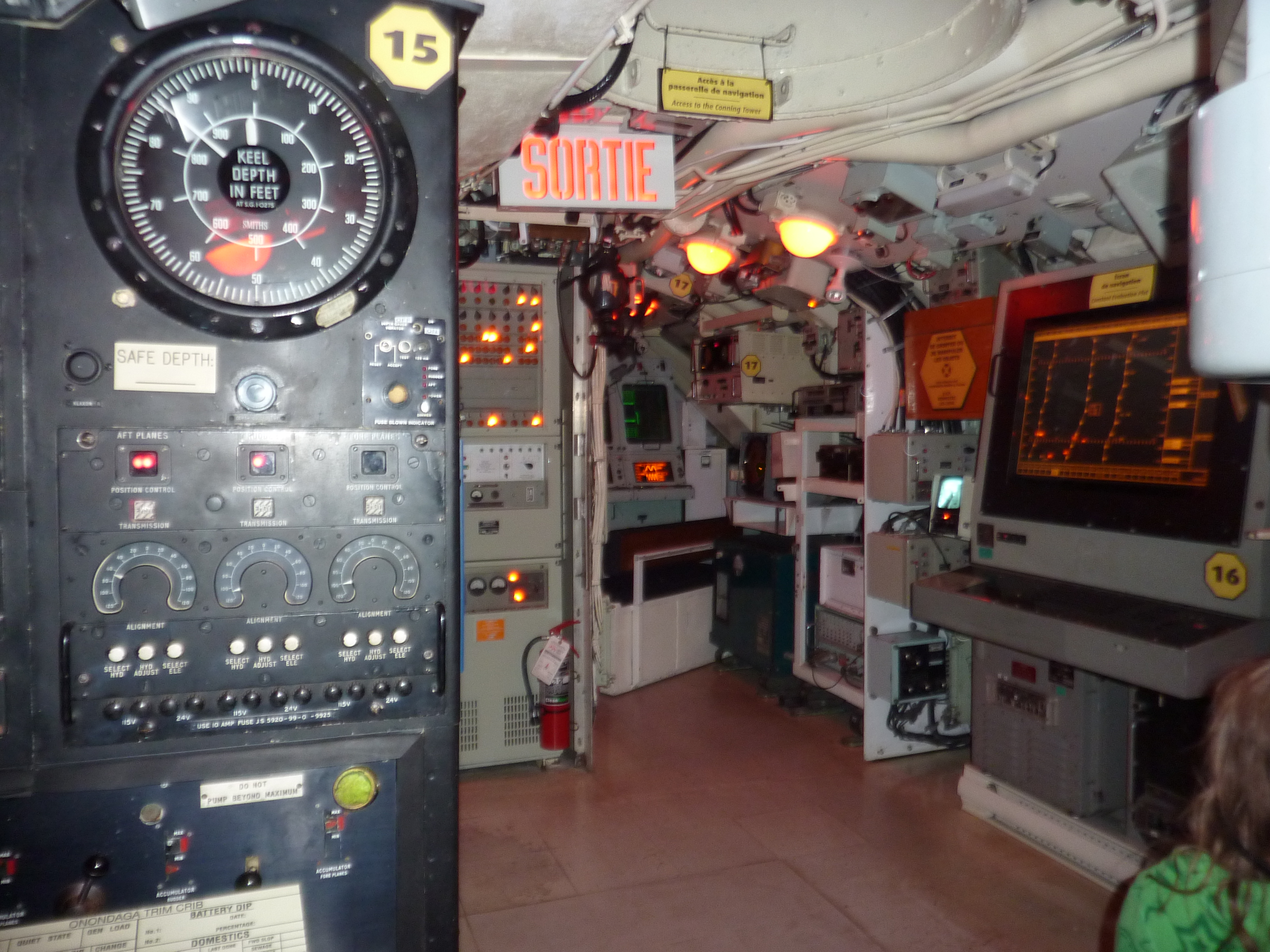 Control room of the Onondaga submarine, Site historique maritime de la Pointe-au-pere, Rimouski, Quebec, Canada - 2012-09